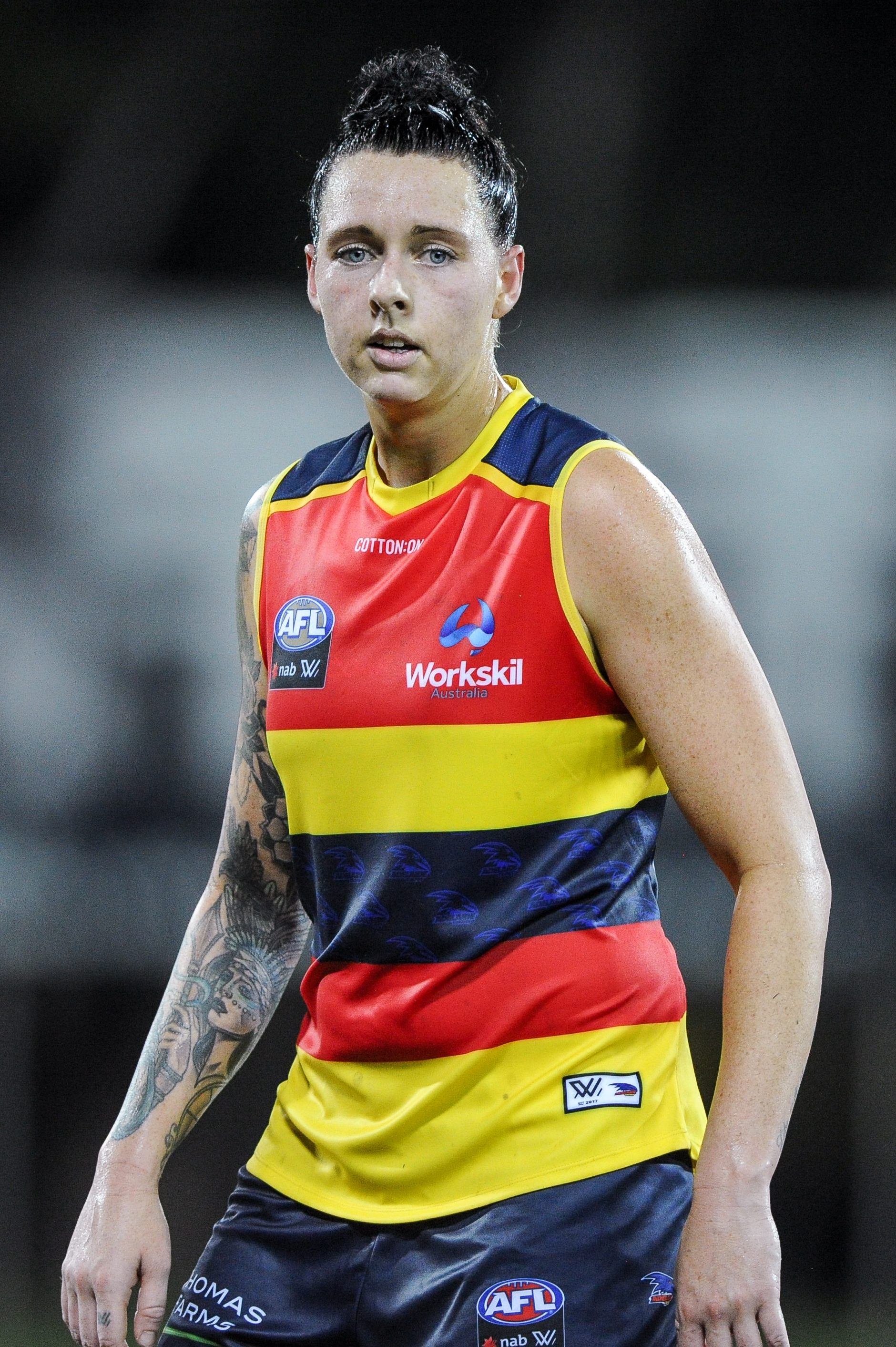 Rhiannon Metcalfe in the AFL Women's preseason match between the Adelaide Football Club and Fremantle Football Club on 20 January 2018 at TIO Stadium.